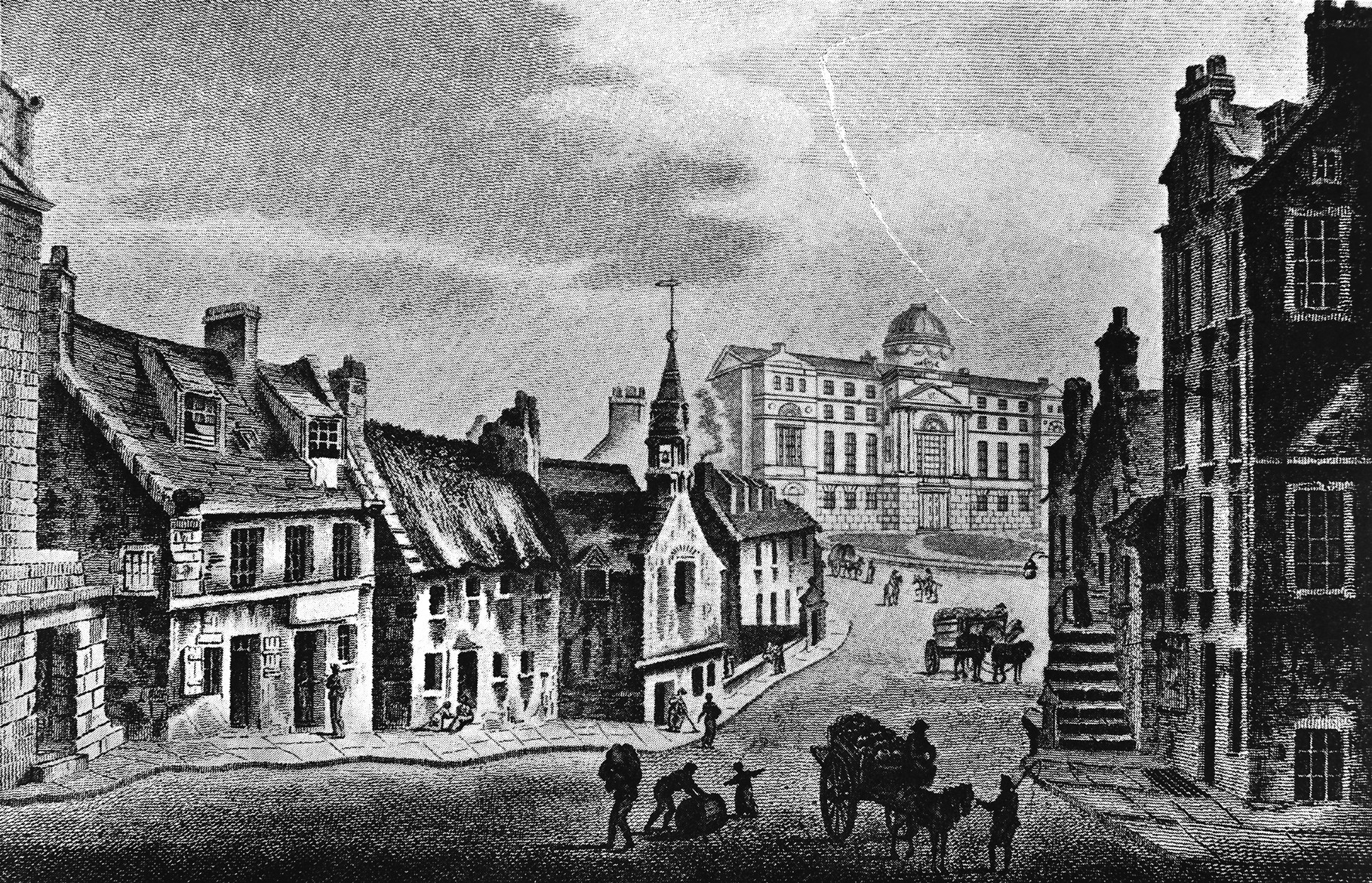 Glasgow Royal Infirmary. Wellcome has the following information: Half-tone reproduction From: History of Scottish medicine By: John Dixon Comrie Published: Baillière, Tindall & Cox, London, 1932